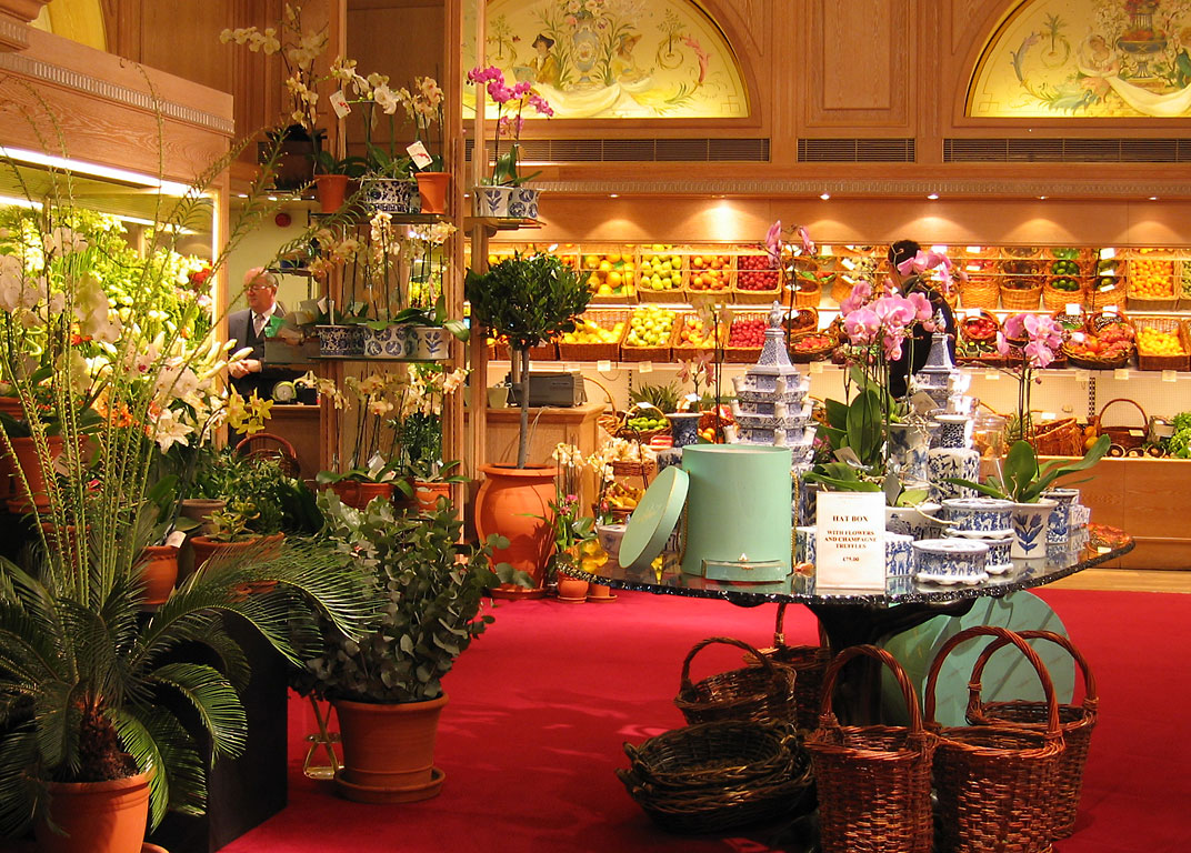 Fortnum & Mason's fruit and flowers section. Fortnum & Mason is a high class grocery store in Piccadilly, London, United Kingdom. The sign on the table reads: HAT BOX with flowers and champagne truffles £75